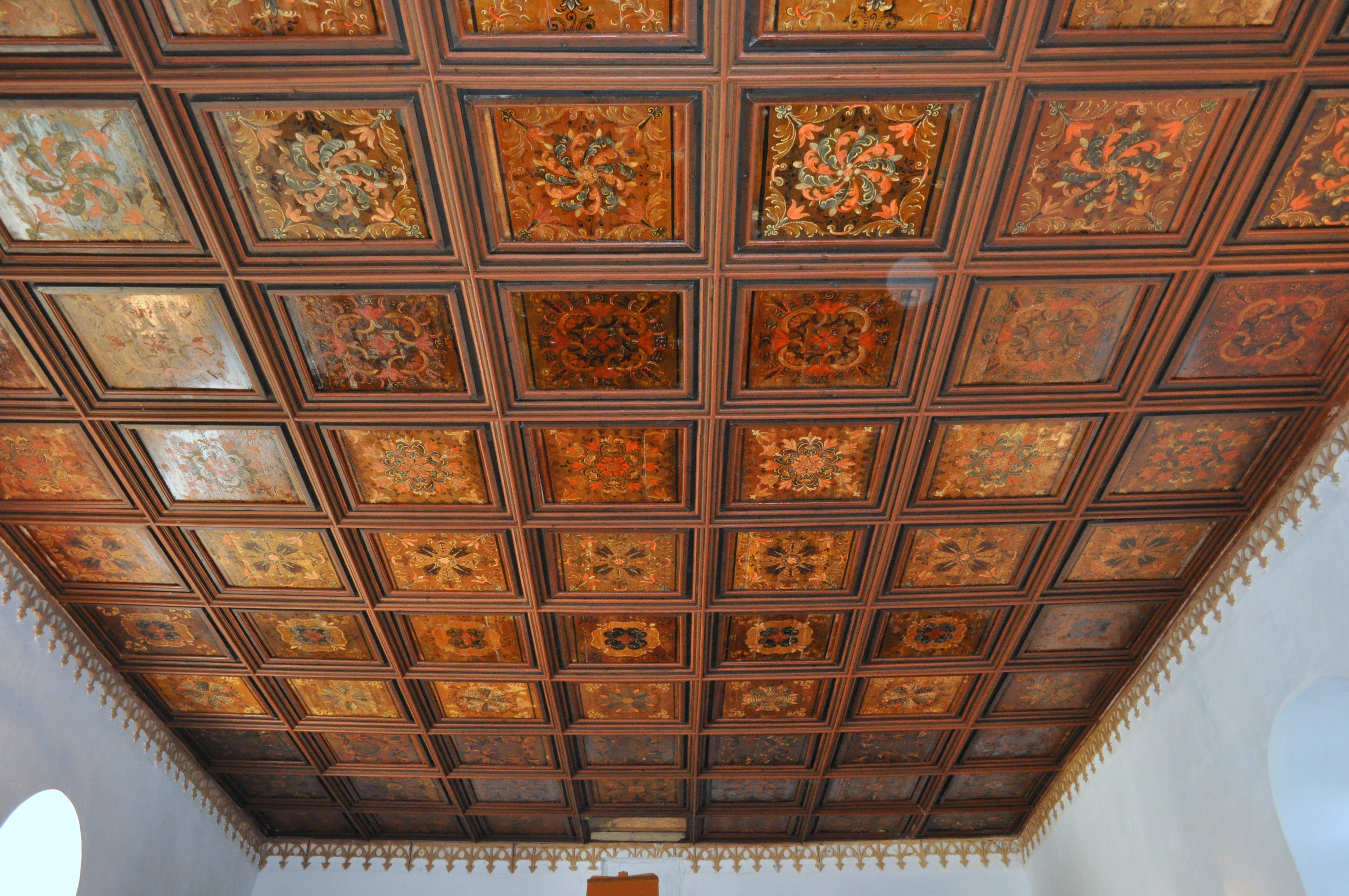 Unitarian church in Plăiești, Cluj county, Romania